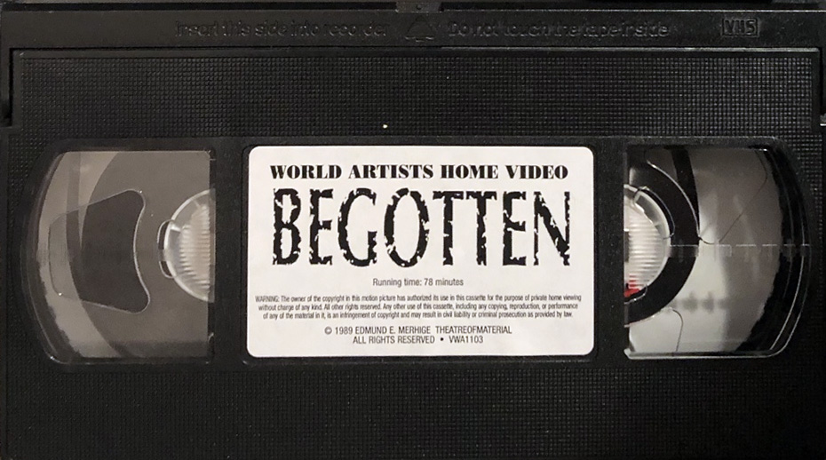 A 1995 VHS tape of the 1989 experimental horror film Begotten.